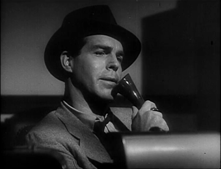 Cropped screenshot of Fred MacMurray from the trailer for the film Double Indemnity